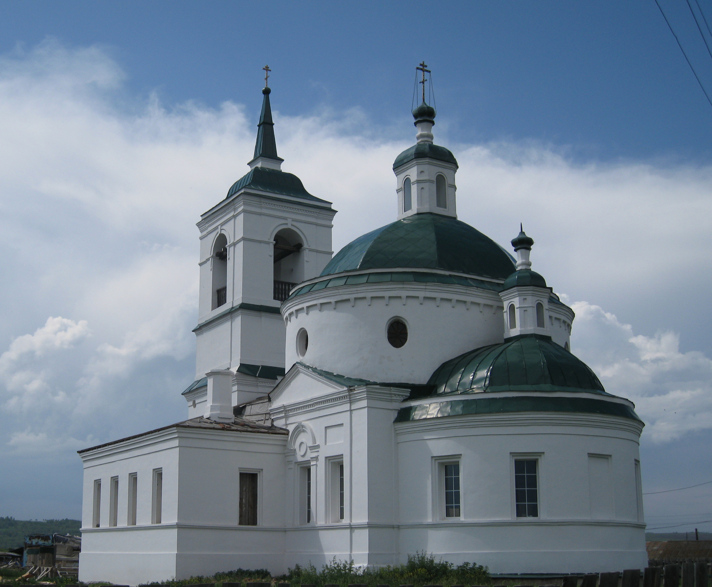 Church of the Holy Trinity in Chastoostrovskoye, Krasnoyarsk Krai